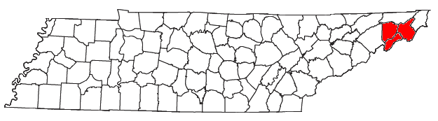 Locator map of the Johnson City Metropolitan Statistical Area in the northeastern part of the U.S. state of Tennessee.